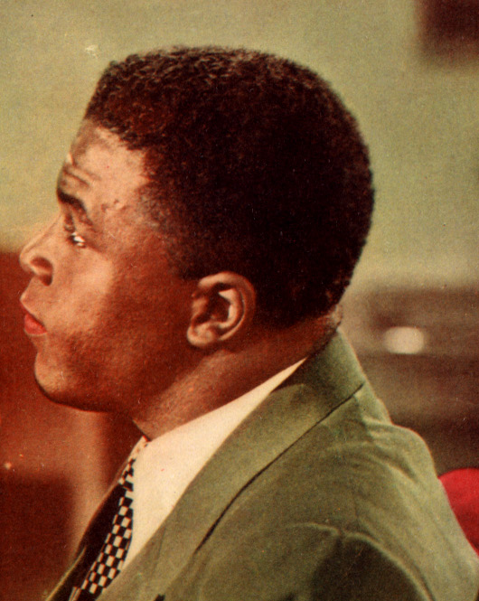 Lobby card promoting The Jackie Robinson Story, showing Minor Watson (as Dodgers president Branch Rickey) and Jackie Robinson (as himself)]